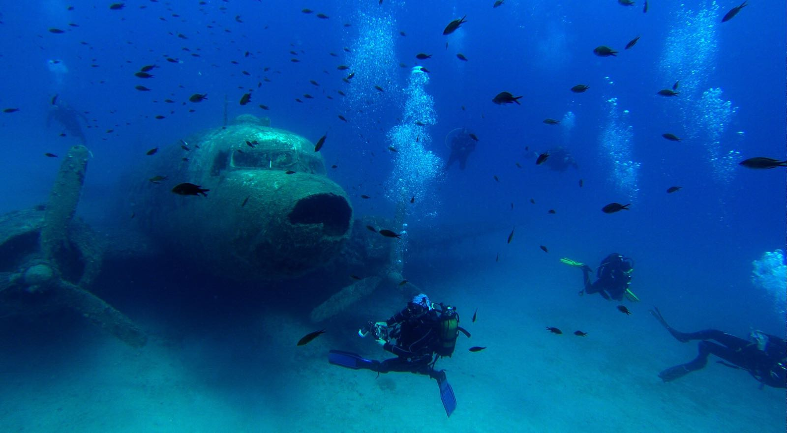 Diver on the plane wreck